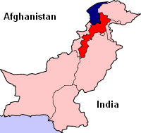 Map of NWFP edited to show Malakand.